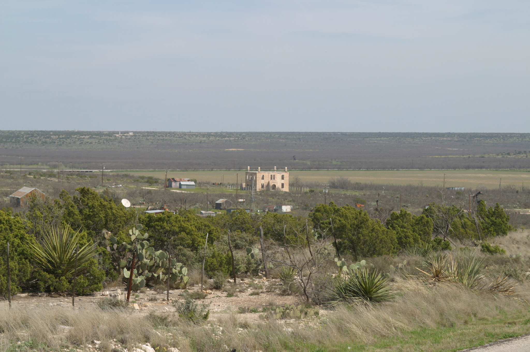 Stiles, Texas, with its abandoned courthouse built with stone quarried from a hillside near the town.